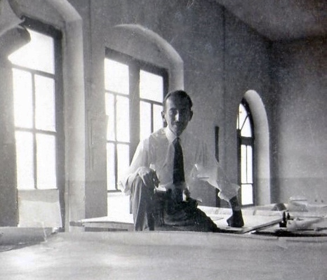 Photograph of Efraín Andrade Viteri during his time as a member of the Quito City Planning Project (Plan Regulador Quito) in 1945.